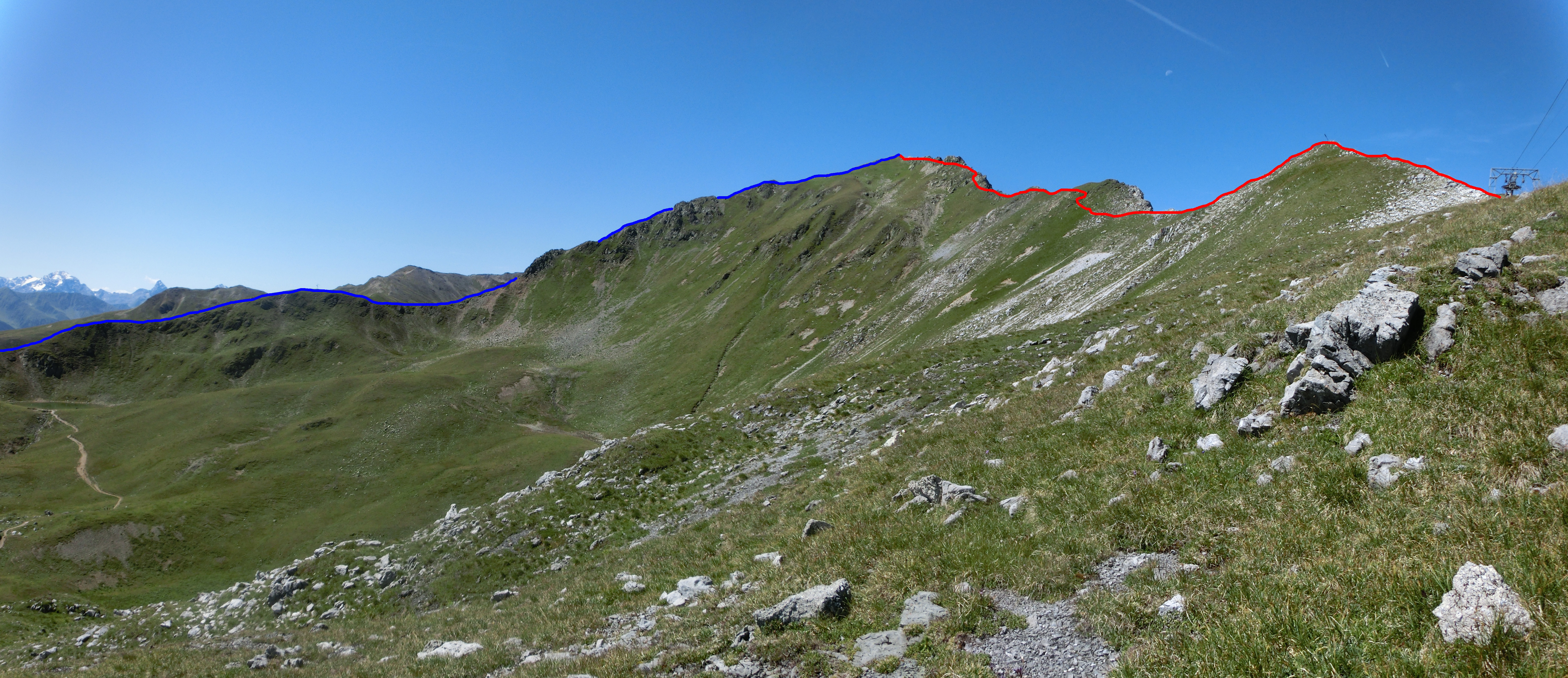 Routes to Strela. Red from Strelapass and blue from Strelasee, Arosa, Davos, Grison, Switzerland